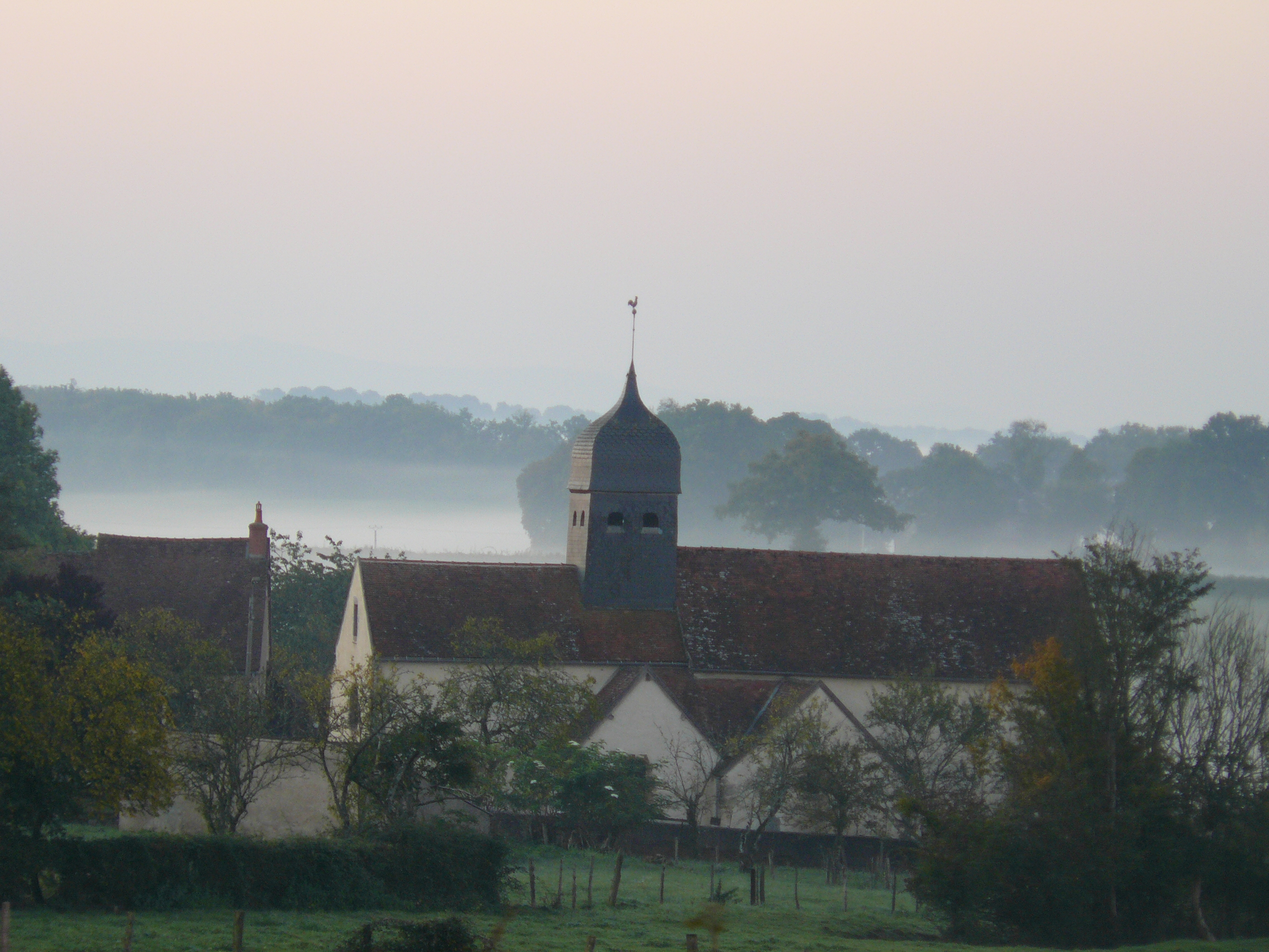 Church of Chougny (Nièvre, France) in the morning fog